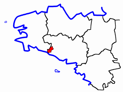 Description: Map for localisazion of cantons of Bretagne region in France Source: made by Hervé Tigier in april 2005 from another large map (published in 1990)